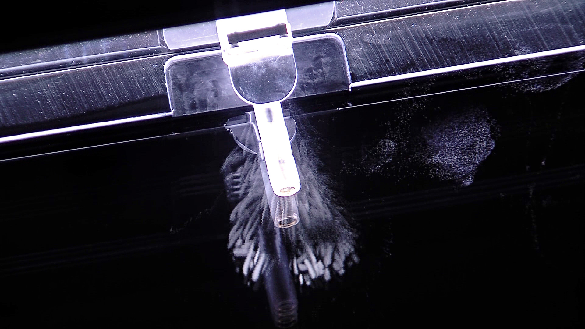 Artificial nuclide americium-241 emitting alpha particles inserted into a cloud chamber for visualisation.